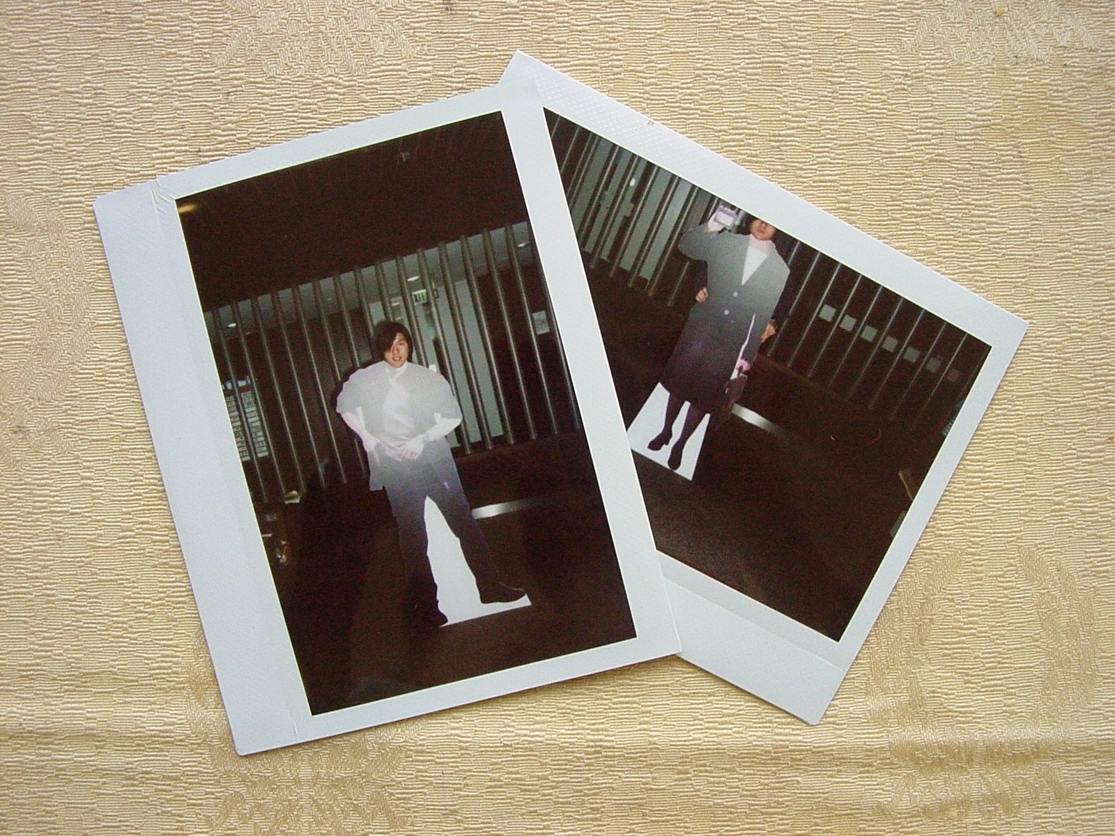 2 photographs recorded on instant films.